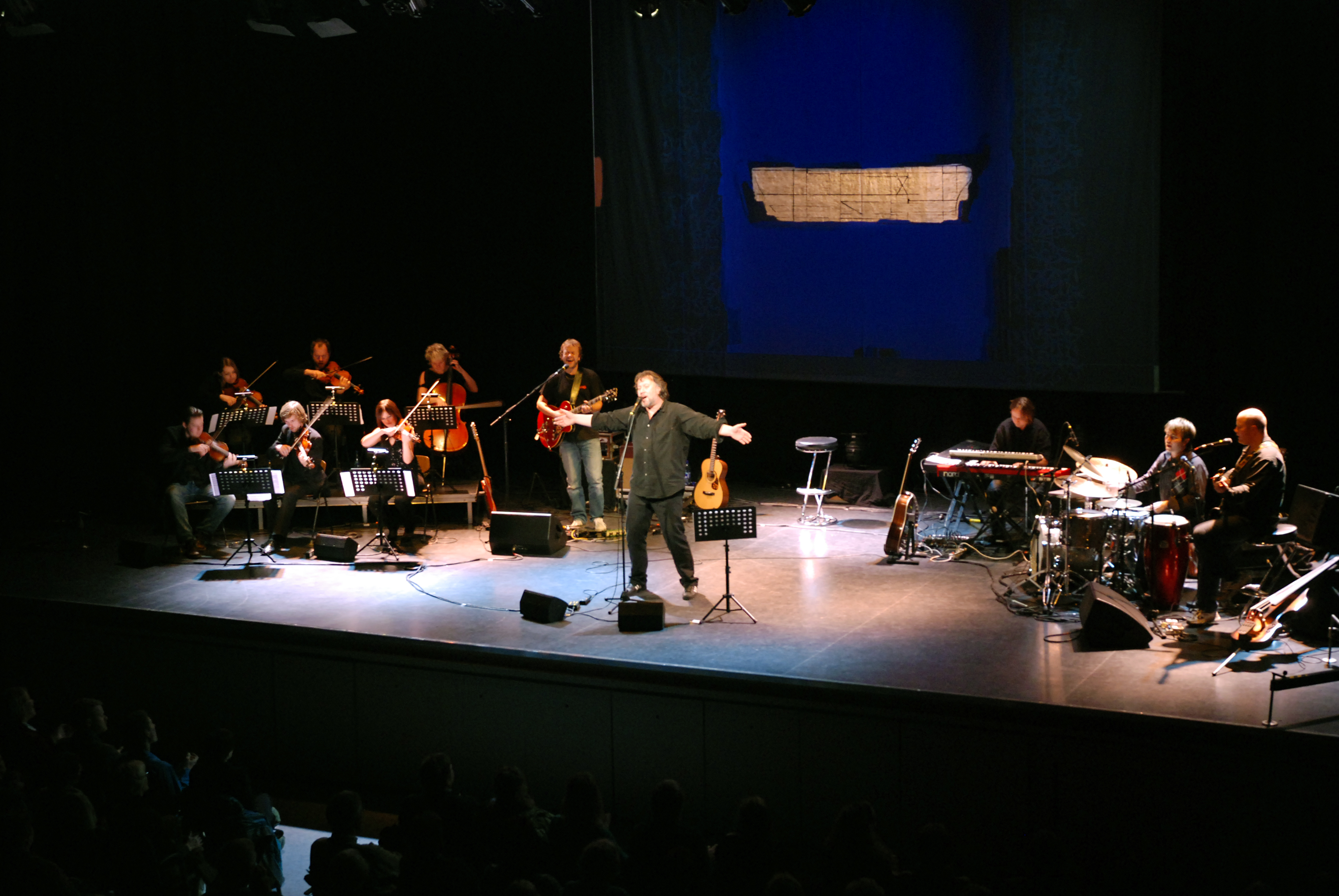 Bjørn Eidsvåg and band with Trondheimsolistene live at kulturhuset, in Hamar, Hedmark, Norway.